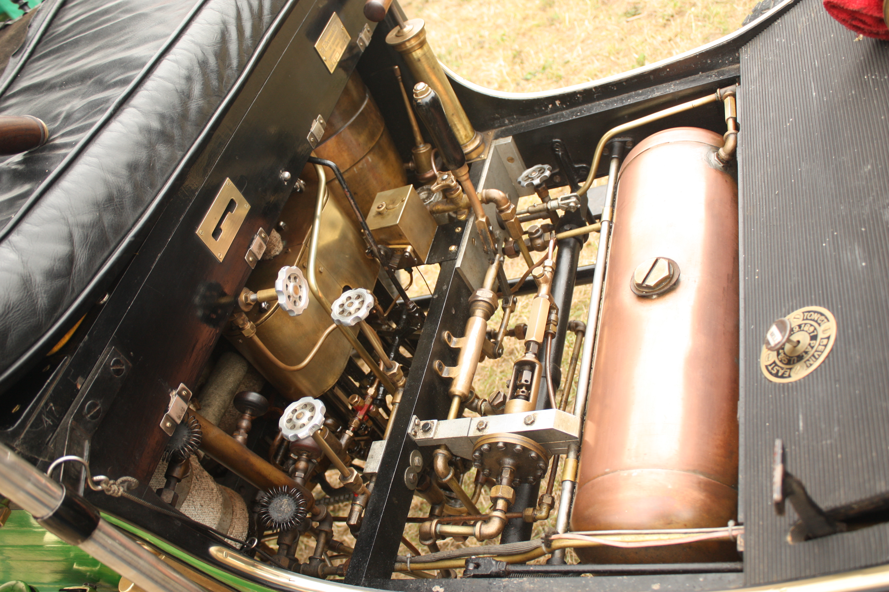 The "Engine" (Workings) of a modern Steam car